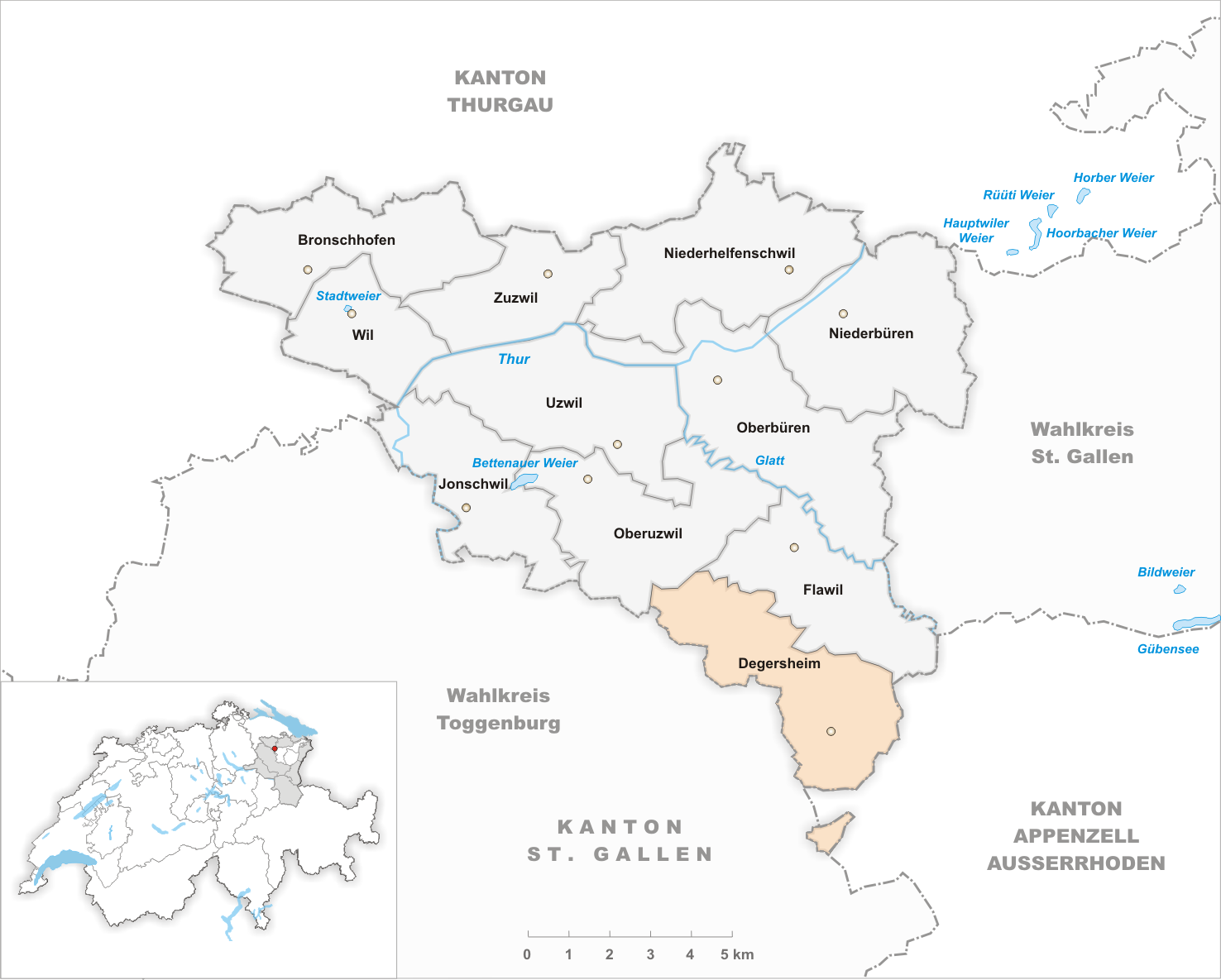 Municipality Degersheim